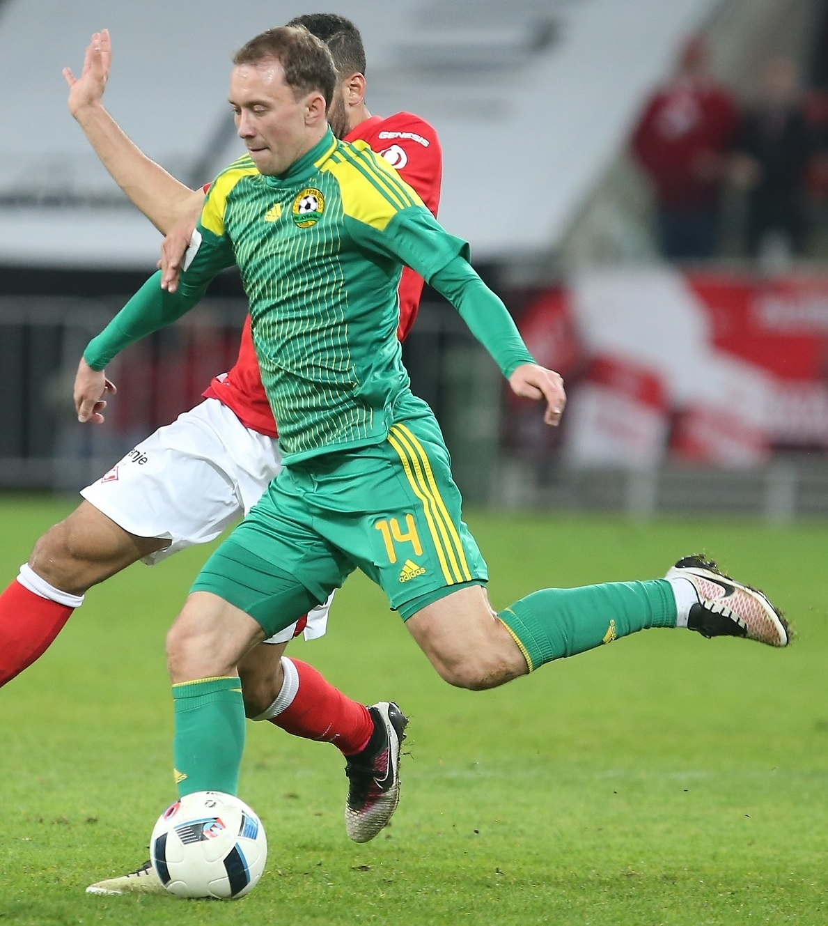 Roman Kontsedalov playing for FC Kuban Krasnodar in a game against FC Spartak Moscow on 10 April 2016.